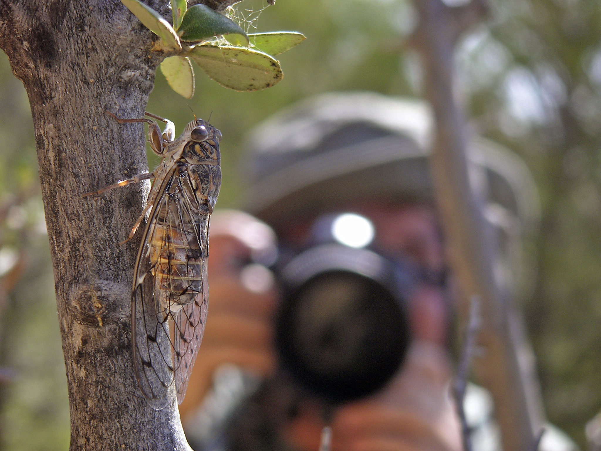 Chicharra común, Tettigades chilensis